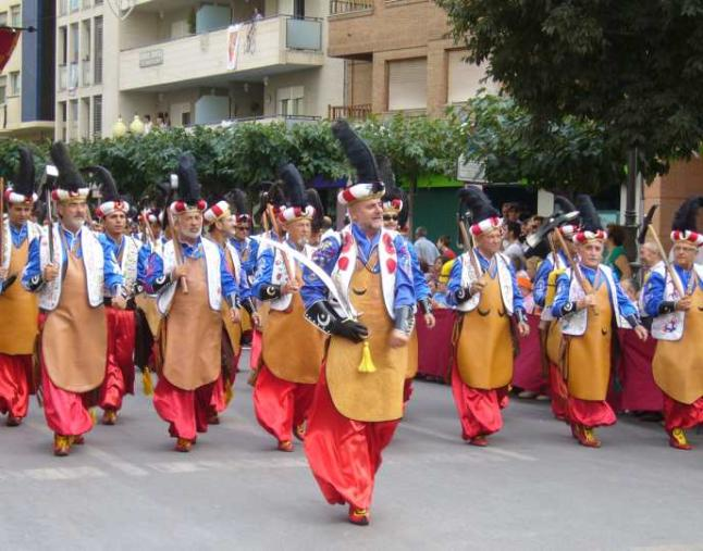 Comparsa de Moros Viejos de Villena